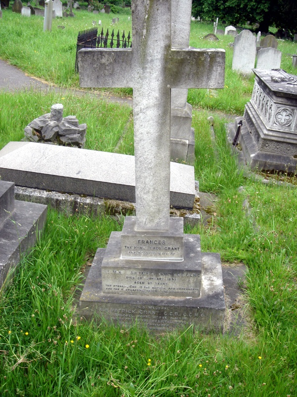 Patrick Grant funerary monument, Brompton Cemetery, London